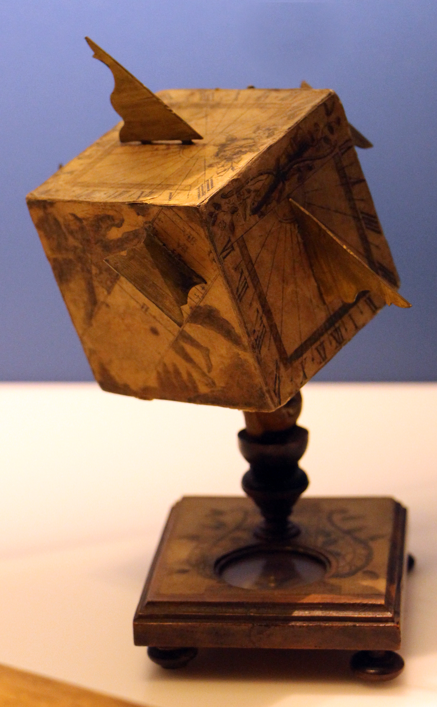 Polyhedral dial.